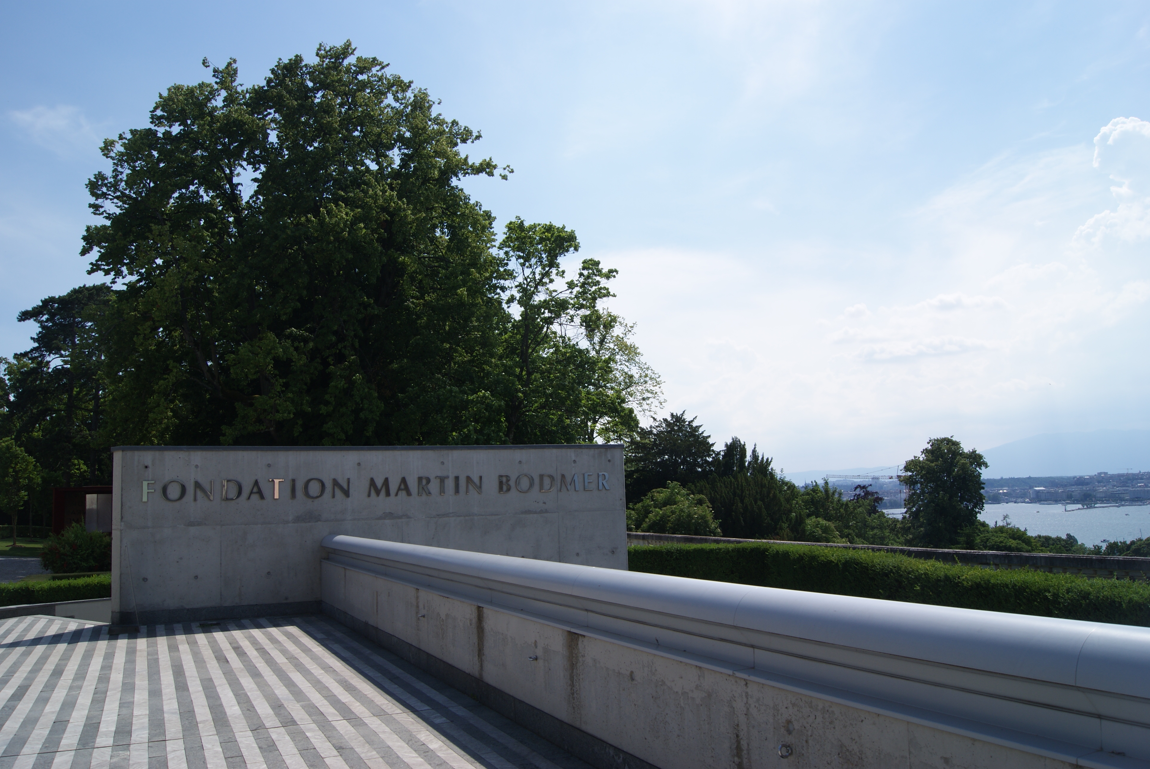 Fondation Martin Bodmer in Cologny, Geneva, Switzerland.